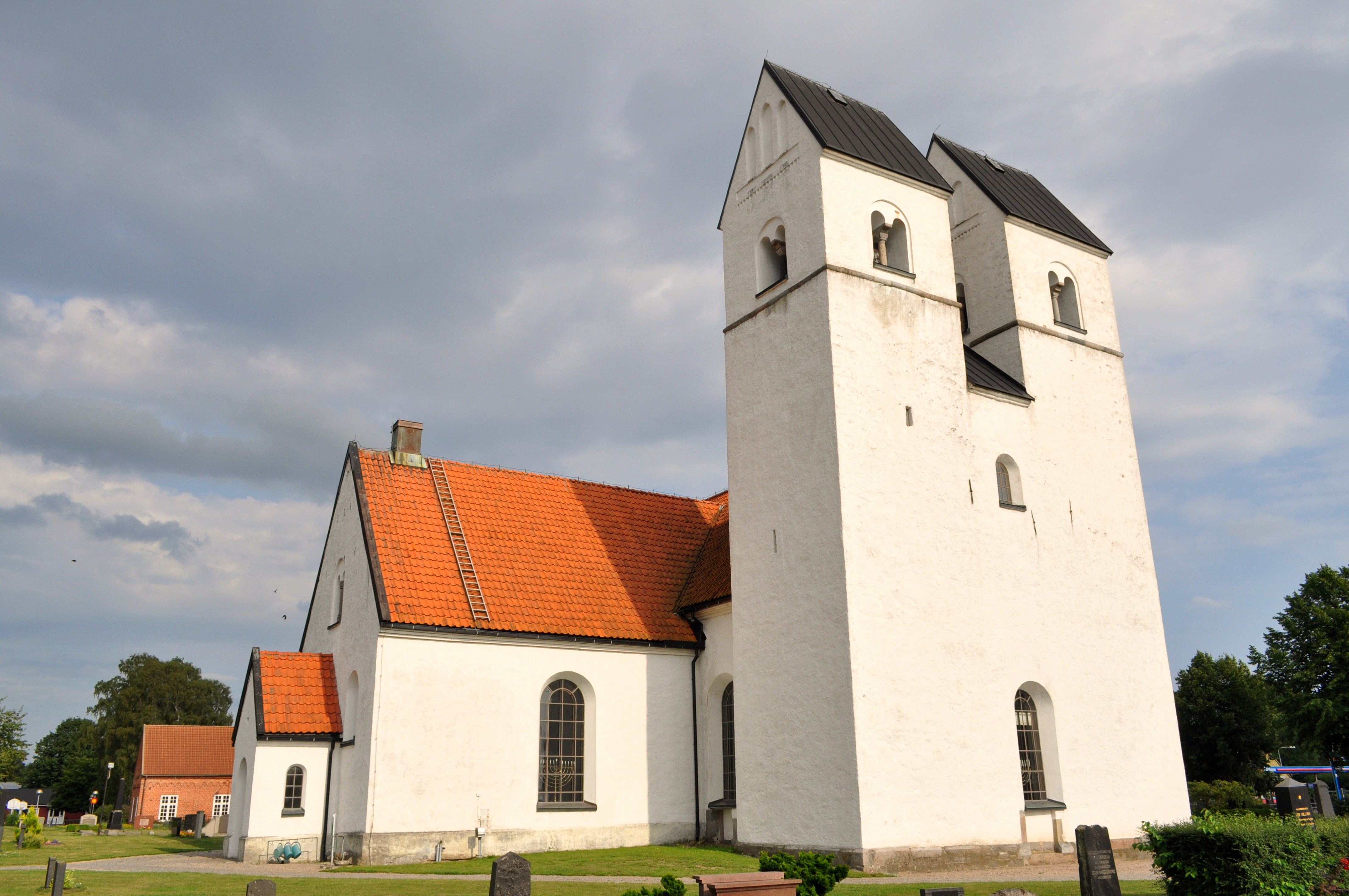 Färlövs church - kyrka